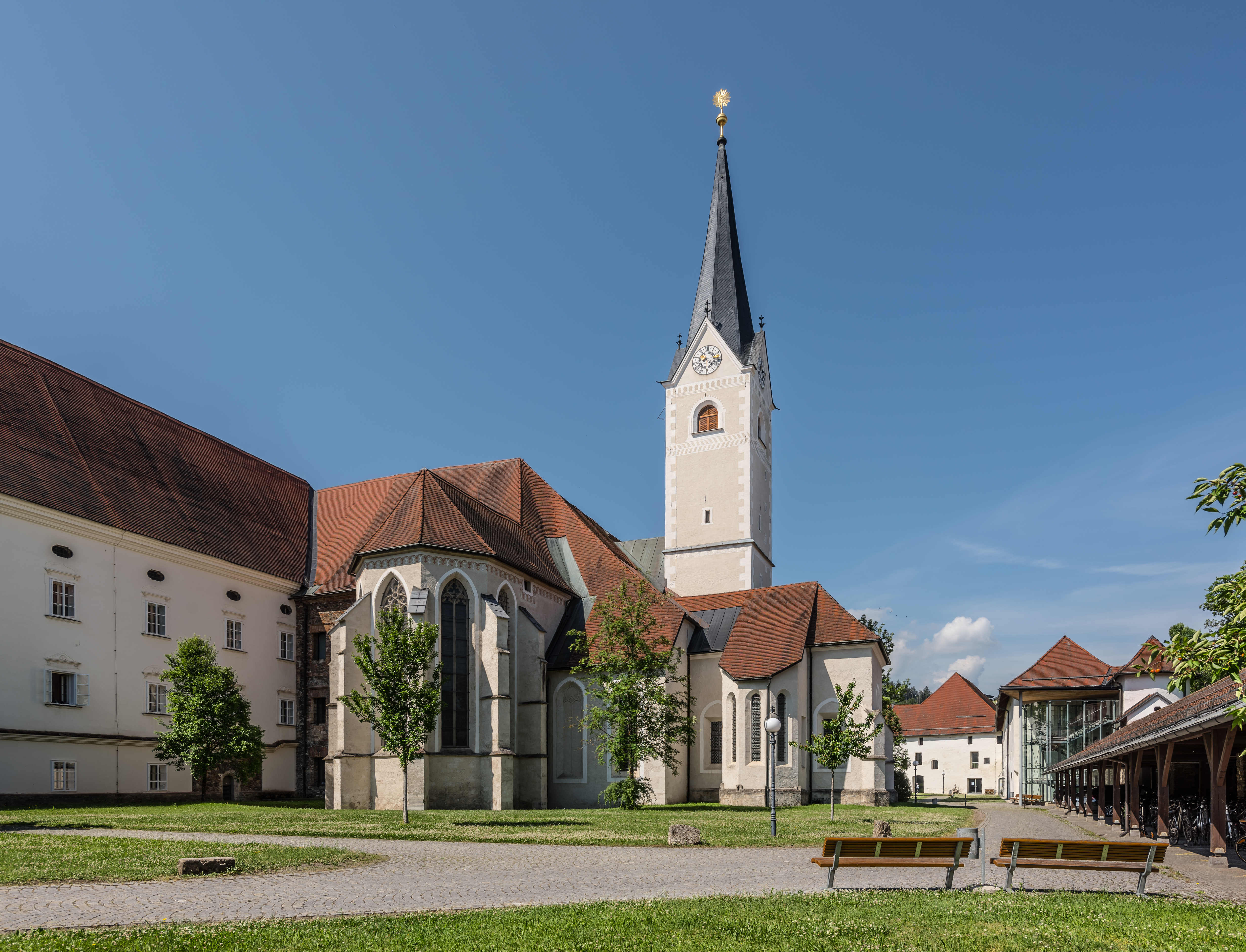 Collegiate and parish church Our Lady of Victories at the cistercian monastery, 13th district Viktring, municipality Klagenfurt on the Lake Woerth, district Klagenfurt Land, Carinthia, Austria, EU